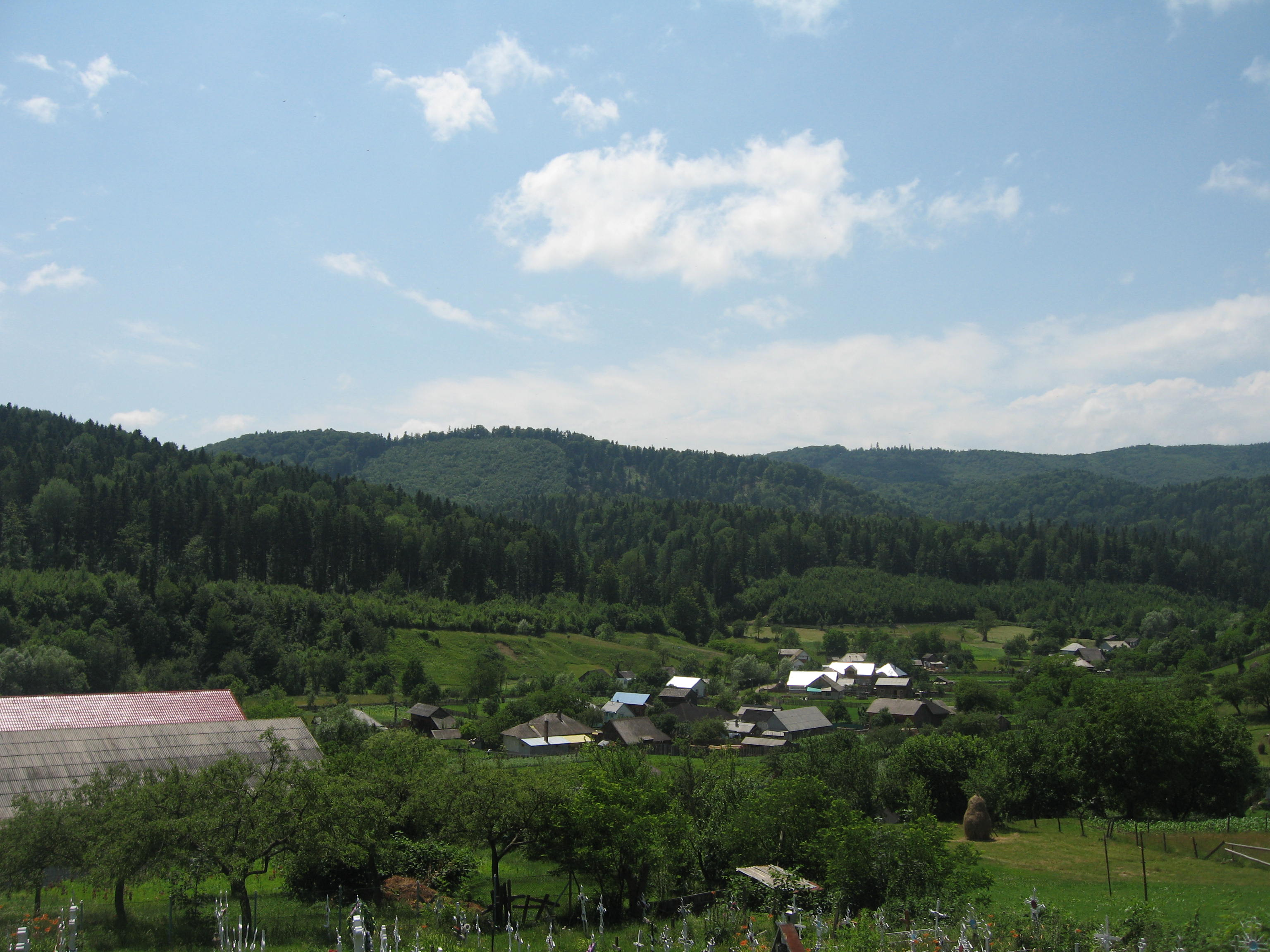 Peisaj din Slătioara, comuna Râșca, județul Suceava